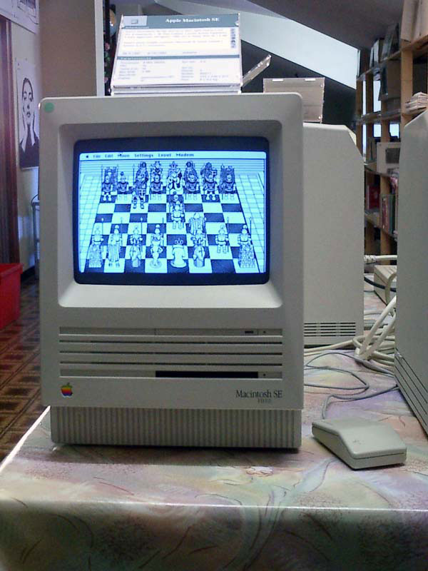 Macintosh SE FDHD